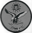 The FBI HRT's patch